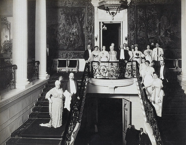 The golden wedding of Prince Anatole Kurakin and Princess Elisabeth Volkonsky